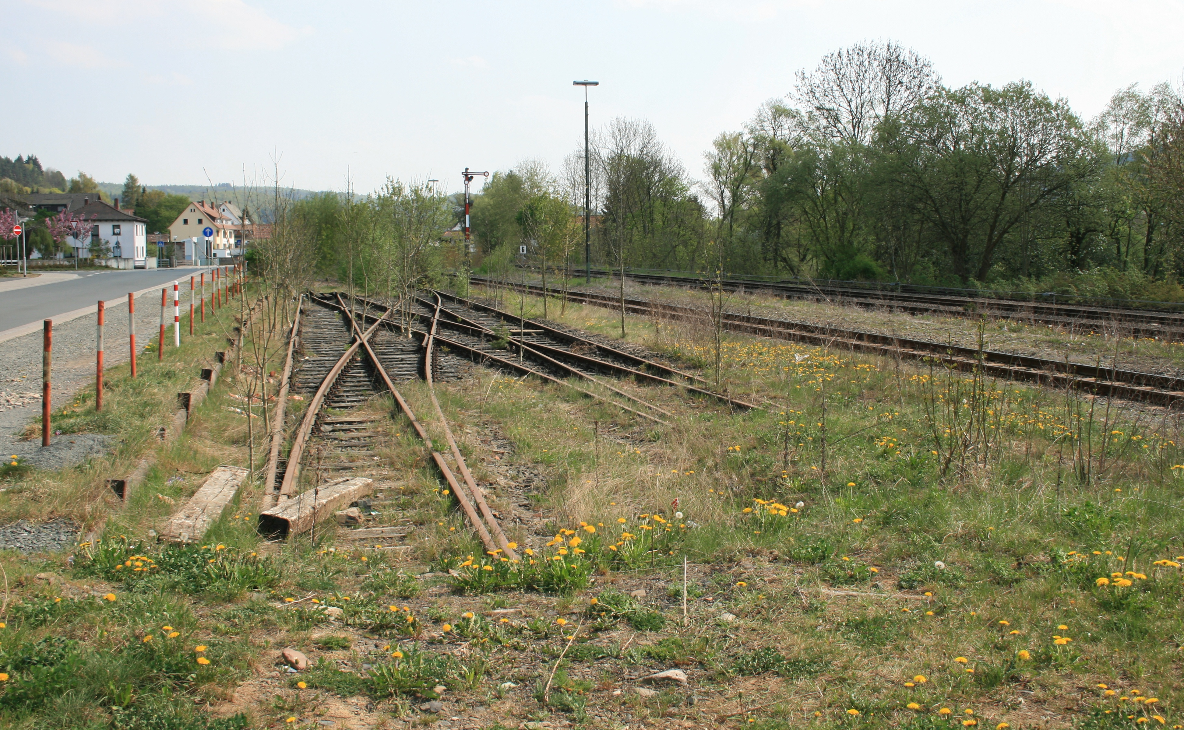 Germany, Hesse, Biedenkopf/Lahn, Station: former track, view from the freight station.